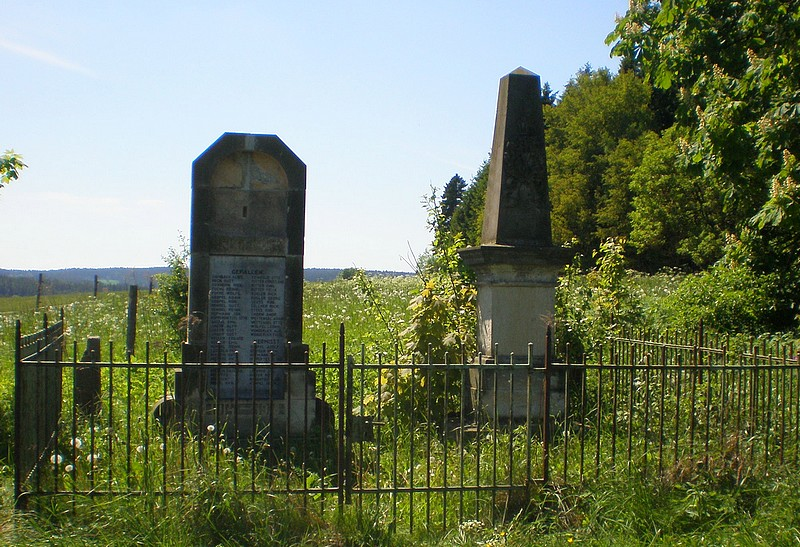 Trojmezí (Hranice), Cheb District, Czech Republic; War Memorials (war in 1866 & WW1)